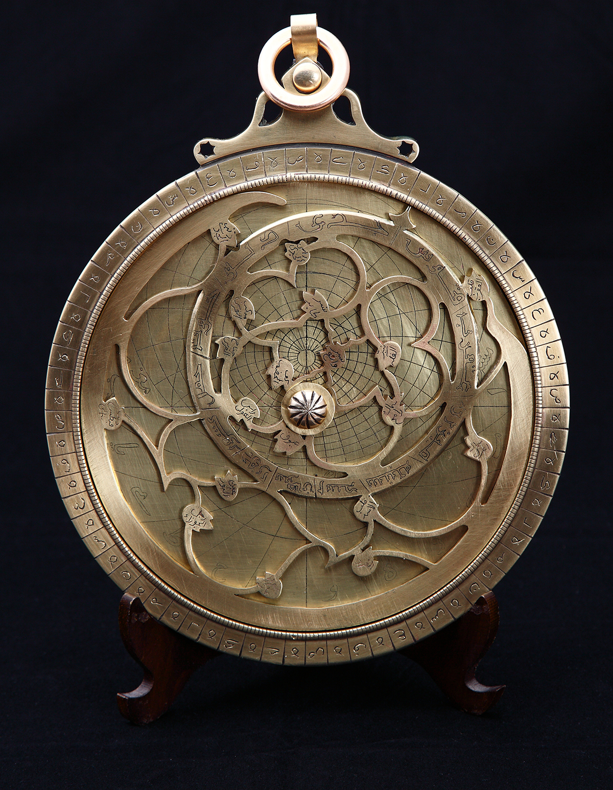 A new Iranian flat Astrolabe, made in Tabriz in 2013, by Jacopo Koushan. Made from brass. It is an ancient astronomical tool. Photographs by Masoud Safarniya.